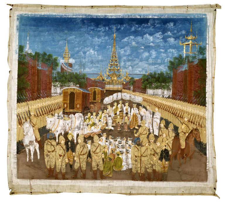 This painting shows the departure of King Thibaw (r. 1878-1885) and Queen Supayalat from Mandalay to exile in India at the end of the third Anglo-Burmese war in 1885, when Britain annexed Upper Burma, finally gaining control of the whole of the country. The King and Queen stand in the centre of the picture under umbrellas, with two children in front and courtiers to their right. In the background is the palace, and on each side its walls. The road is lined with British troops, with a British officer mounted on a horse on each side. Two bullock-drawn carriages are on the left, and in front of the royal party (in the foreground) stand British and Sikh officers, and two Burmese officials wearing short black jackets and pahsoes of luntaya-acheik patterned silk. It is likely that this picture is intended to represent the moment when the King and Queen had been brought from the palace and, having got out of their carriage, were about to embark on the river-steamer to begin the first stage of their journey into exile in India.